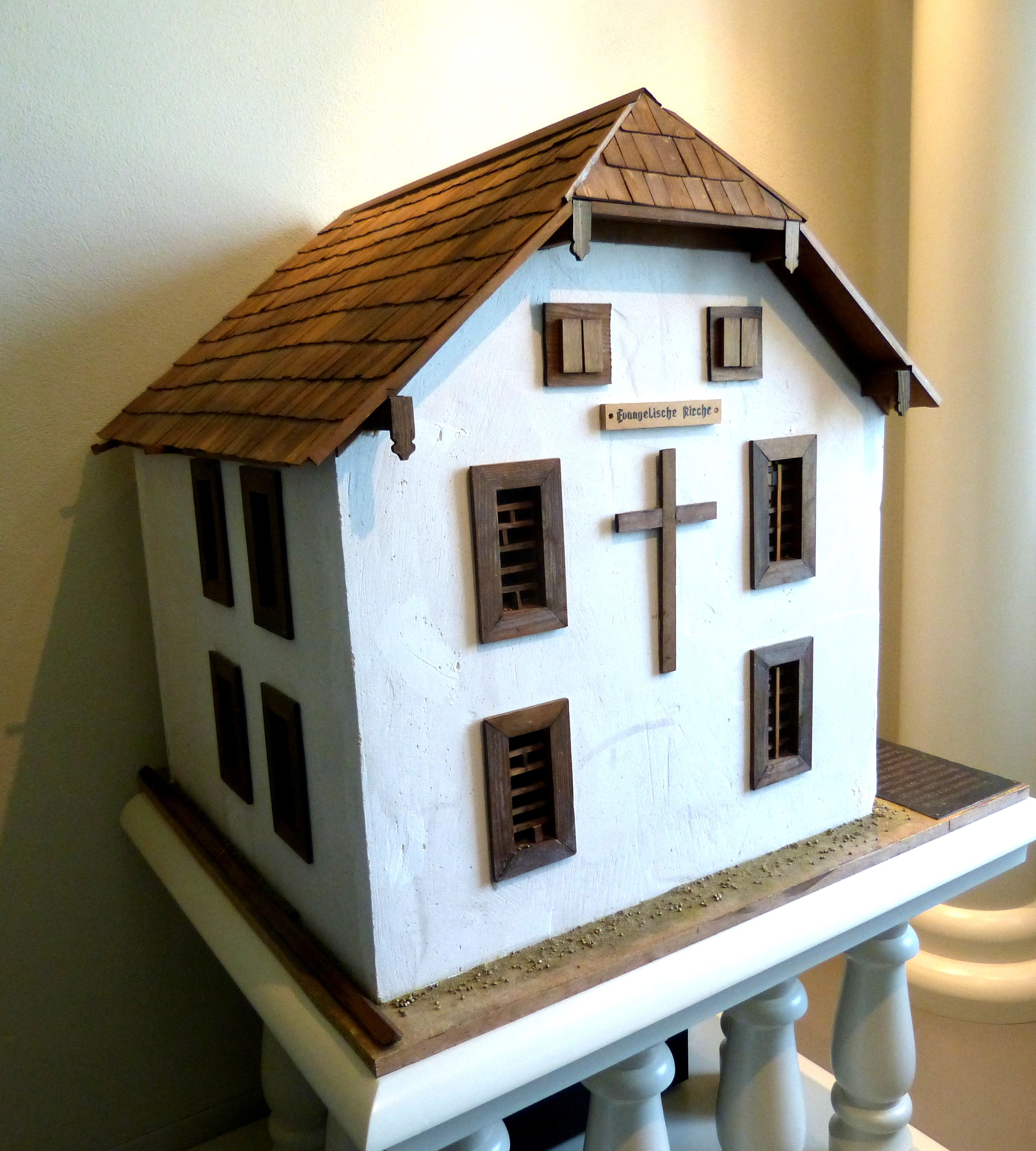 Rutzenmoos ( Upper Austria ). Protestant Museum of Upper Austria: Model of the first Protestant church ( 1785 ) in Hallstatt.